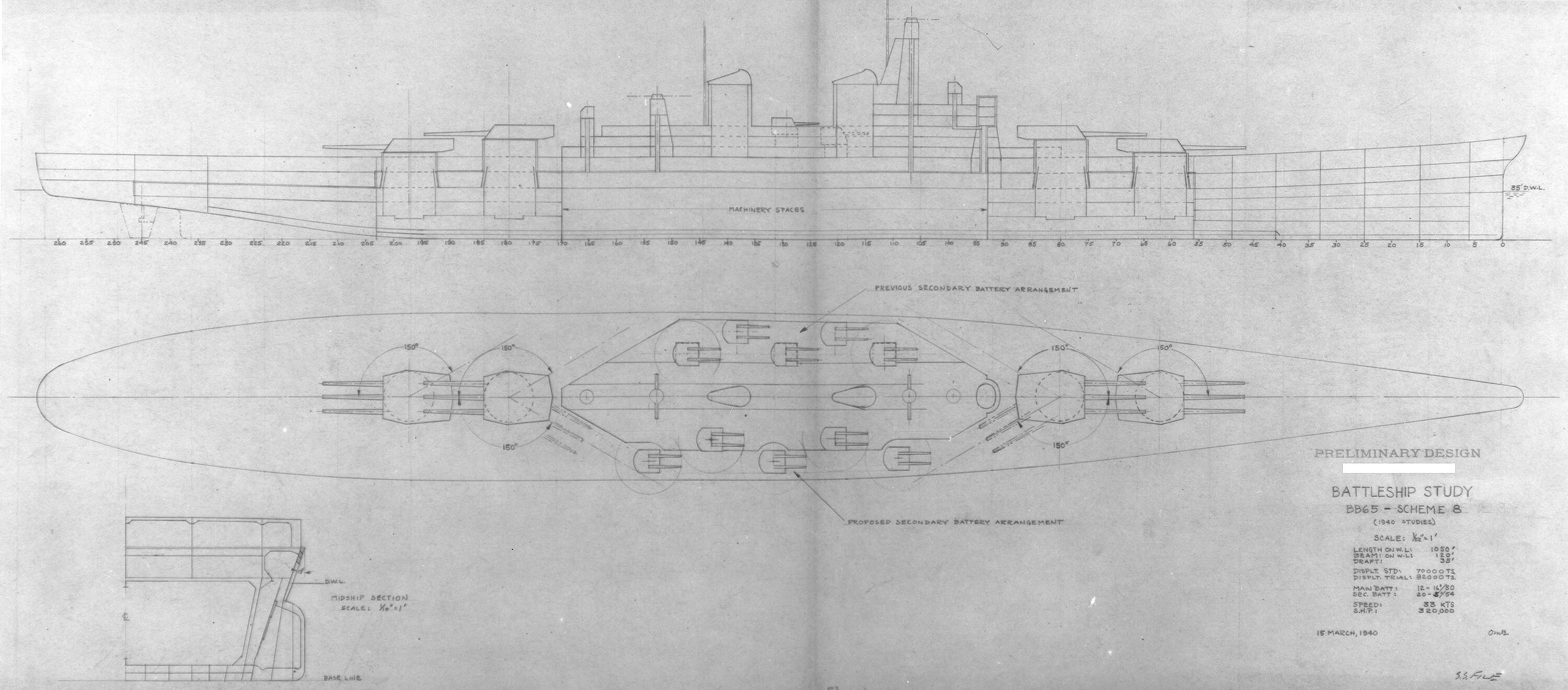 Battleship Study - BB65 - Scheme 8 - (1940 Studies)